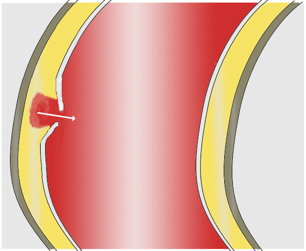 aortic dissection - Aortendissektion (Scheme)